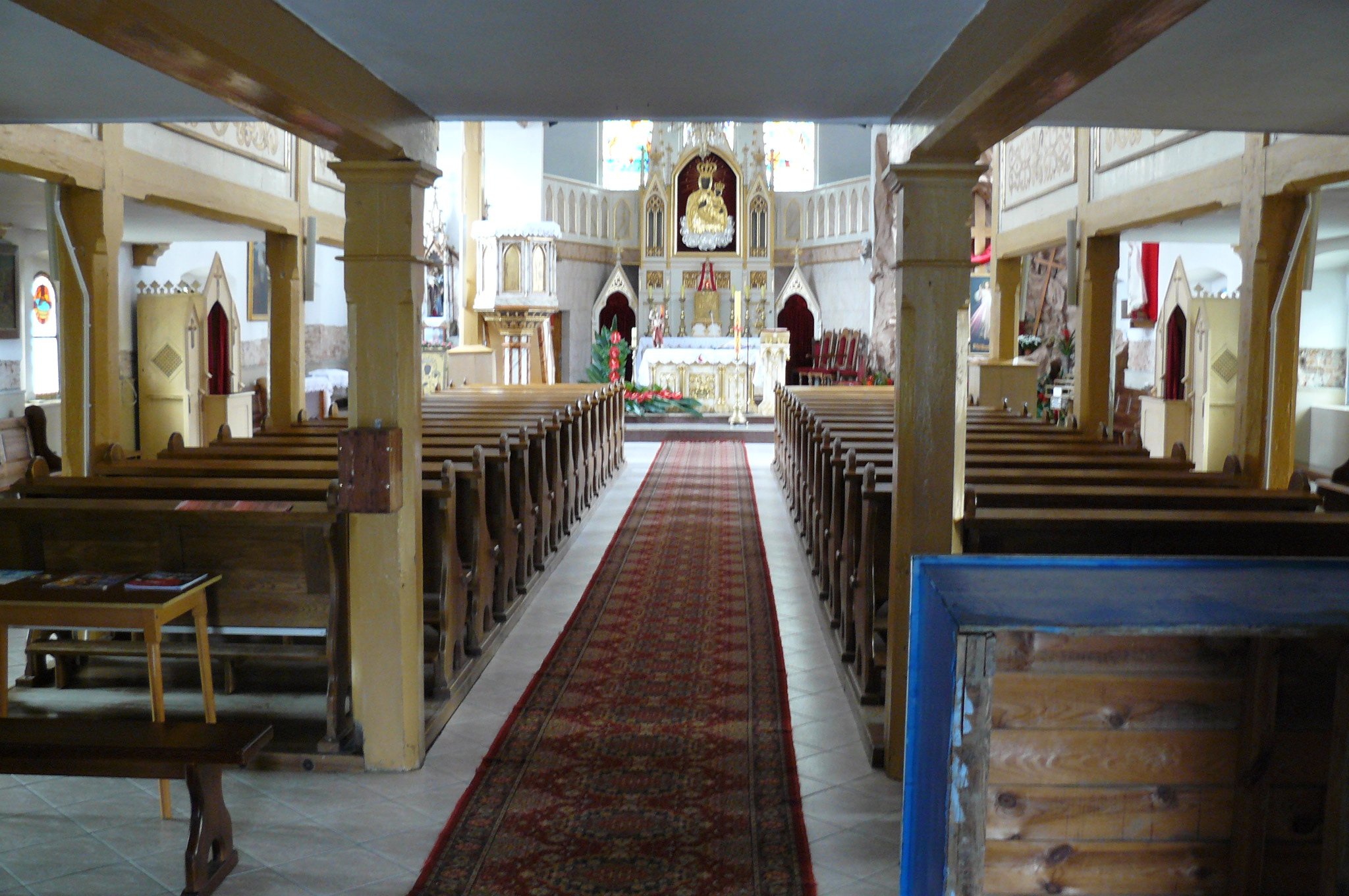 Brzeg Dolny, church (Market) interior.